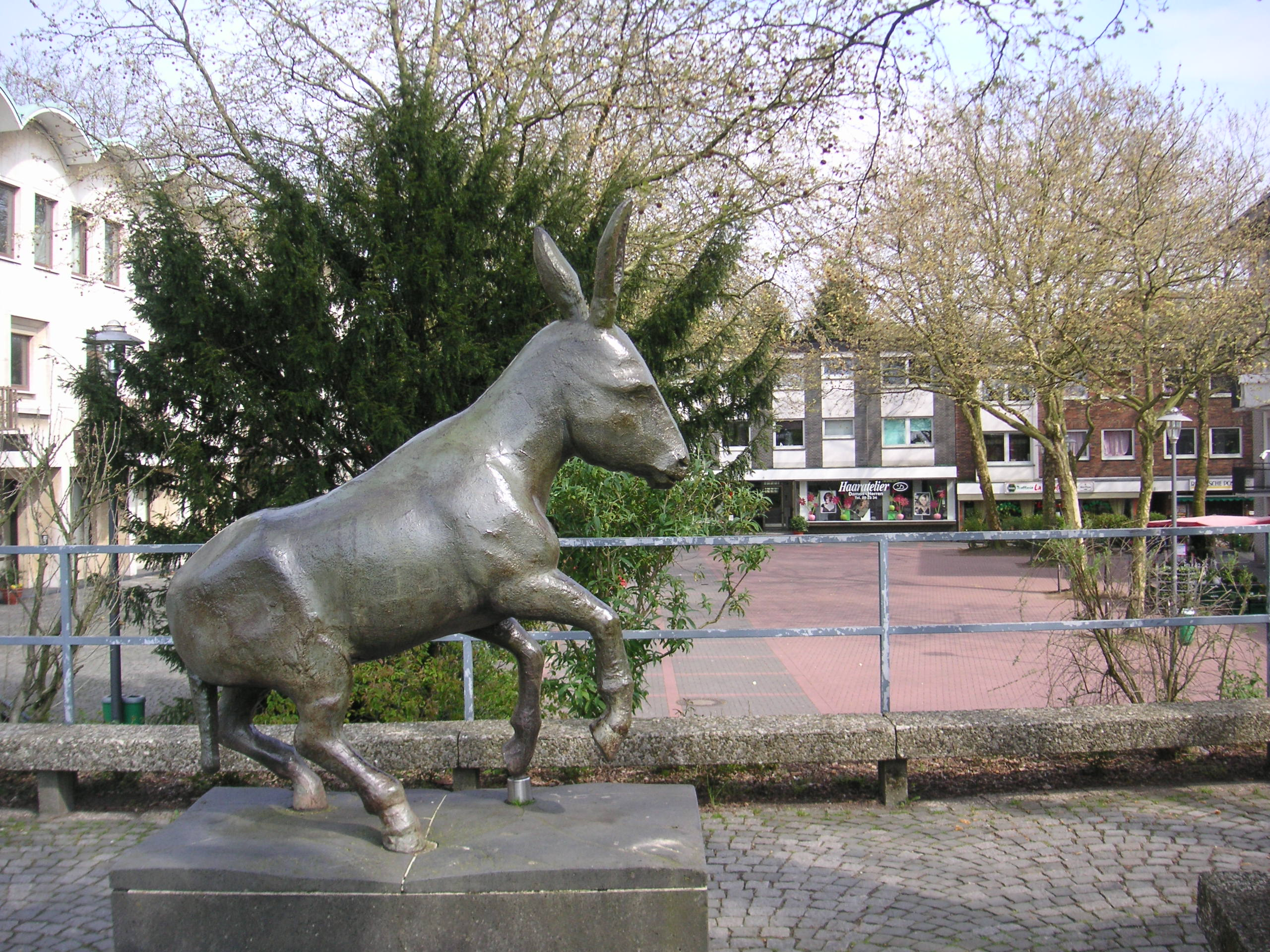 Statue of a donkey. This animal is part of Unterbach's coat of arms. In the background the main square, the Breidenplatz